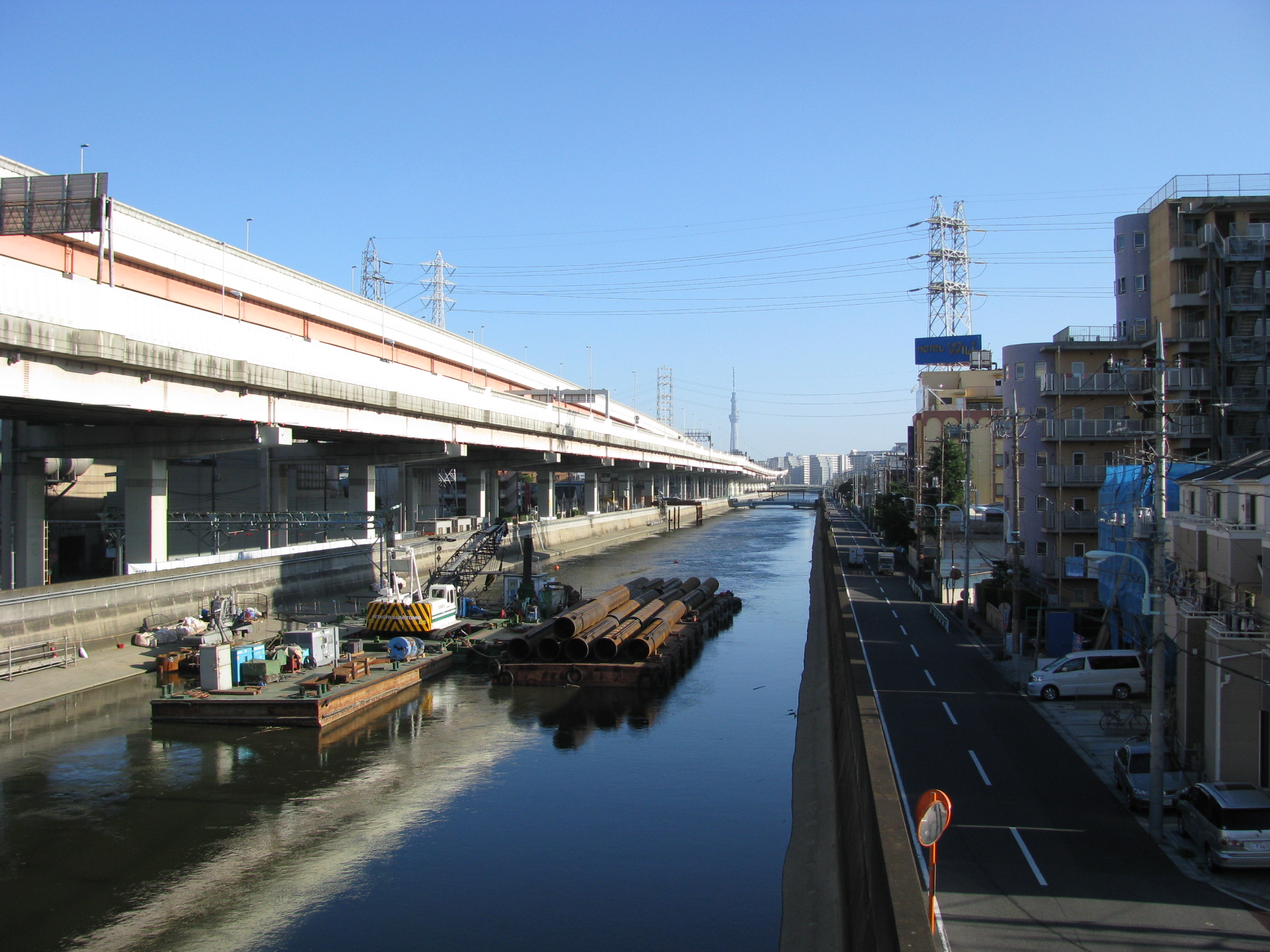 The Ayase-gawa with Tokyo prefectural road route 102, and Shuto Expressway route 6. View from Aoi in Adachi, Tokyo, Japan.